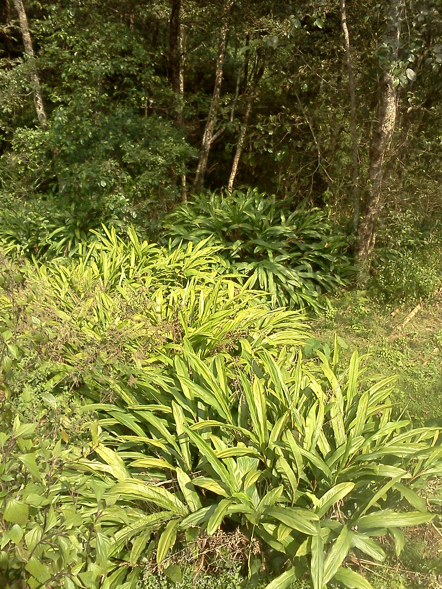 Its big Cardamom plant.